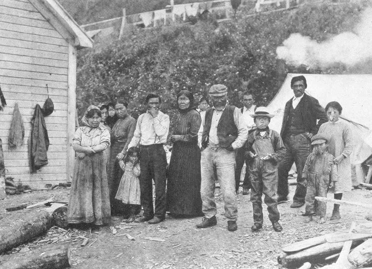 Type of the Kodiak Aleuts who constitute the entire working force at one cannery Subject: Aleuts, Fish canneries--Alaska--Personnel, Women fish trade workers Tag: Commercial Fisheries